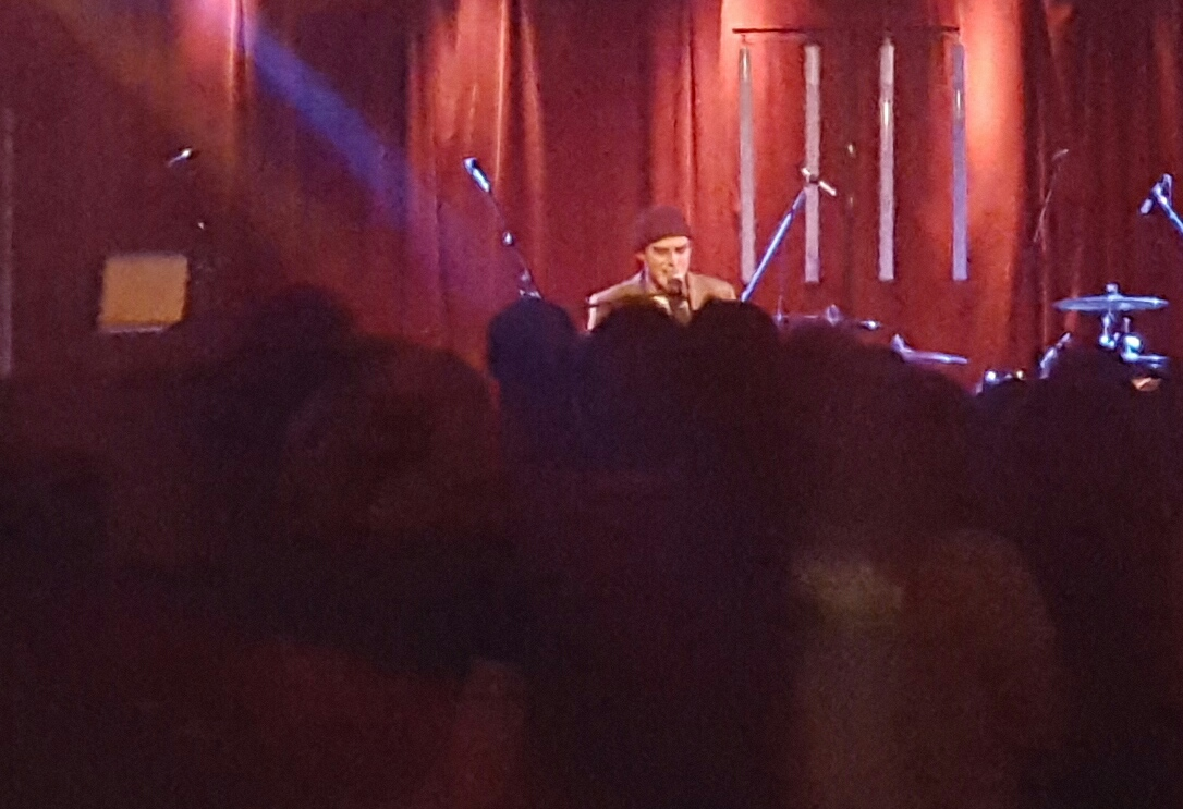 Tor Miller photographed in Montreal, Quebec, Canada inside La Sala Rossa.